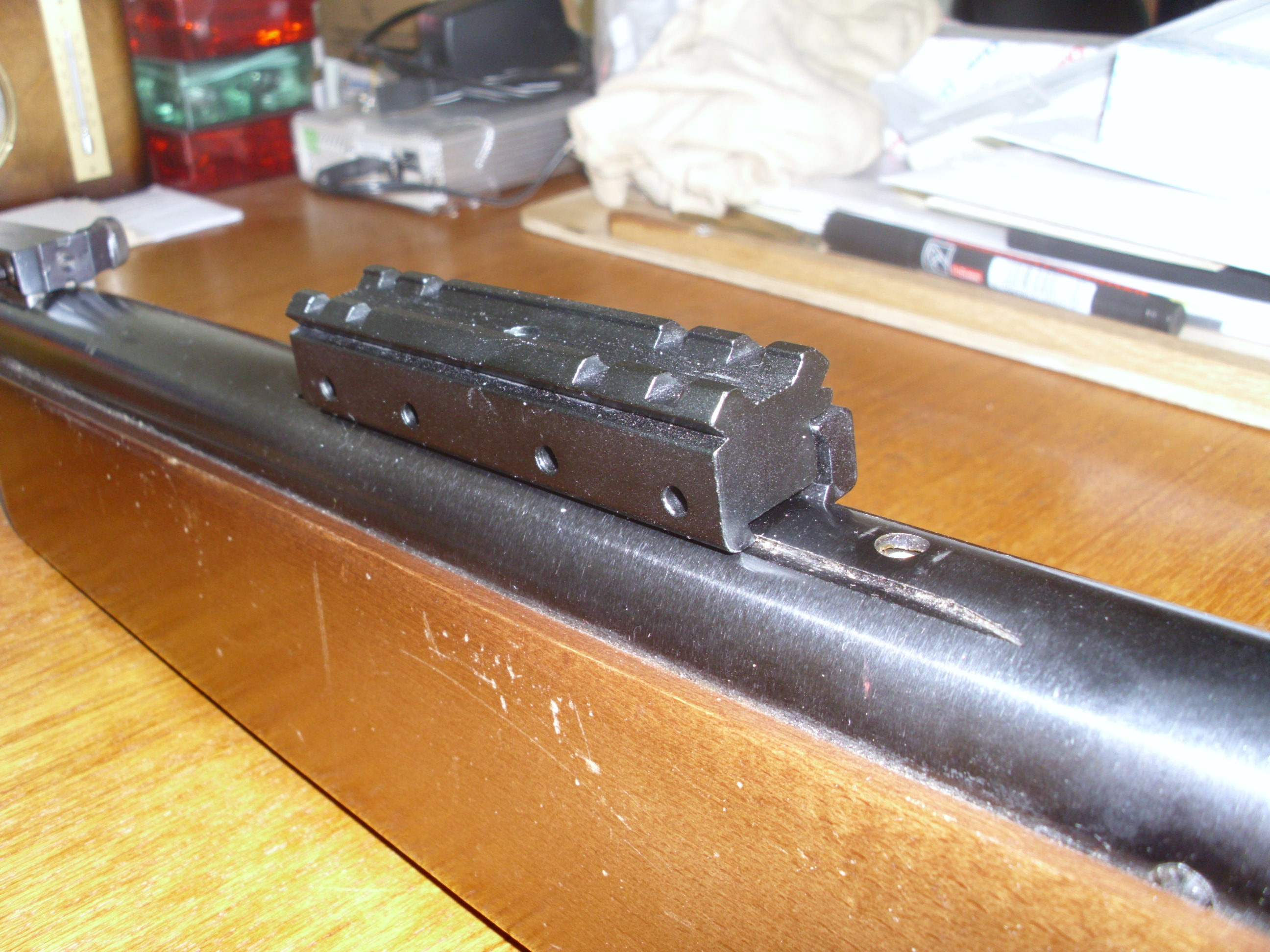 Scope mount, 20 mm mounted on 11 mm rail on Gamo airgun Unknown